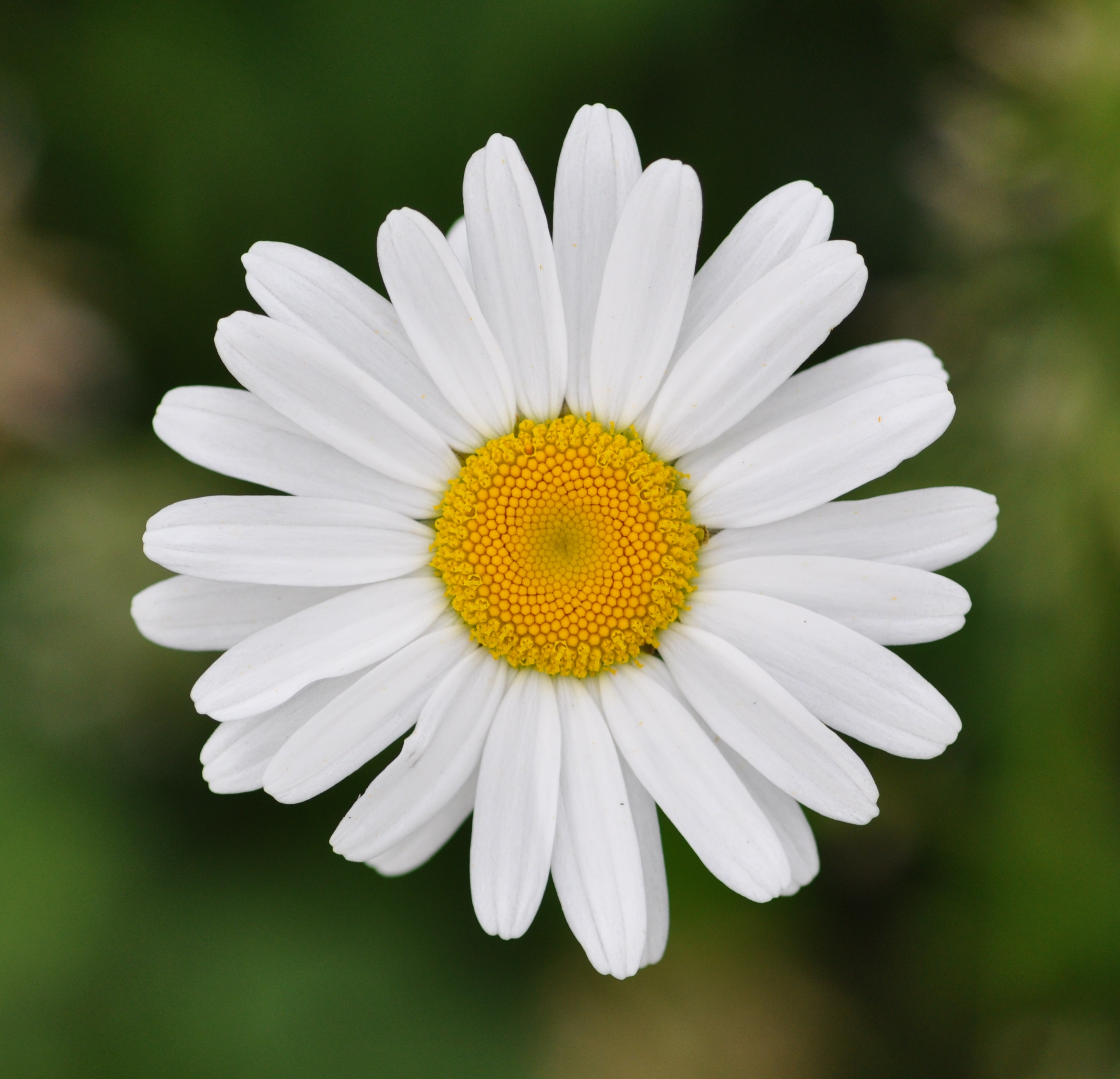 Marguerite (Leucanthemum vulgare) flower closeup.